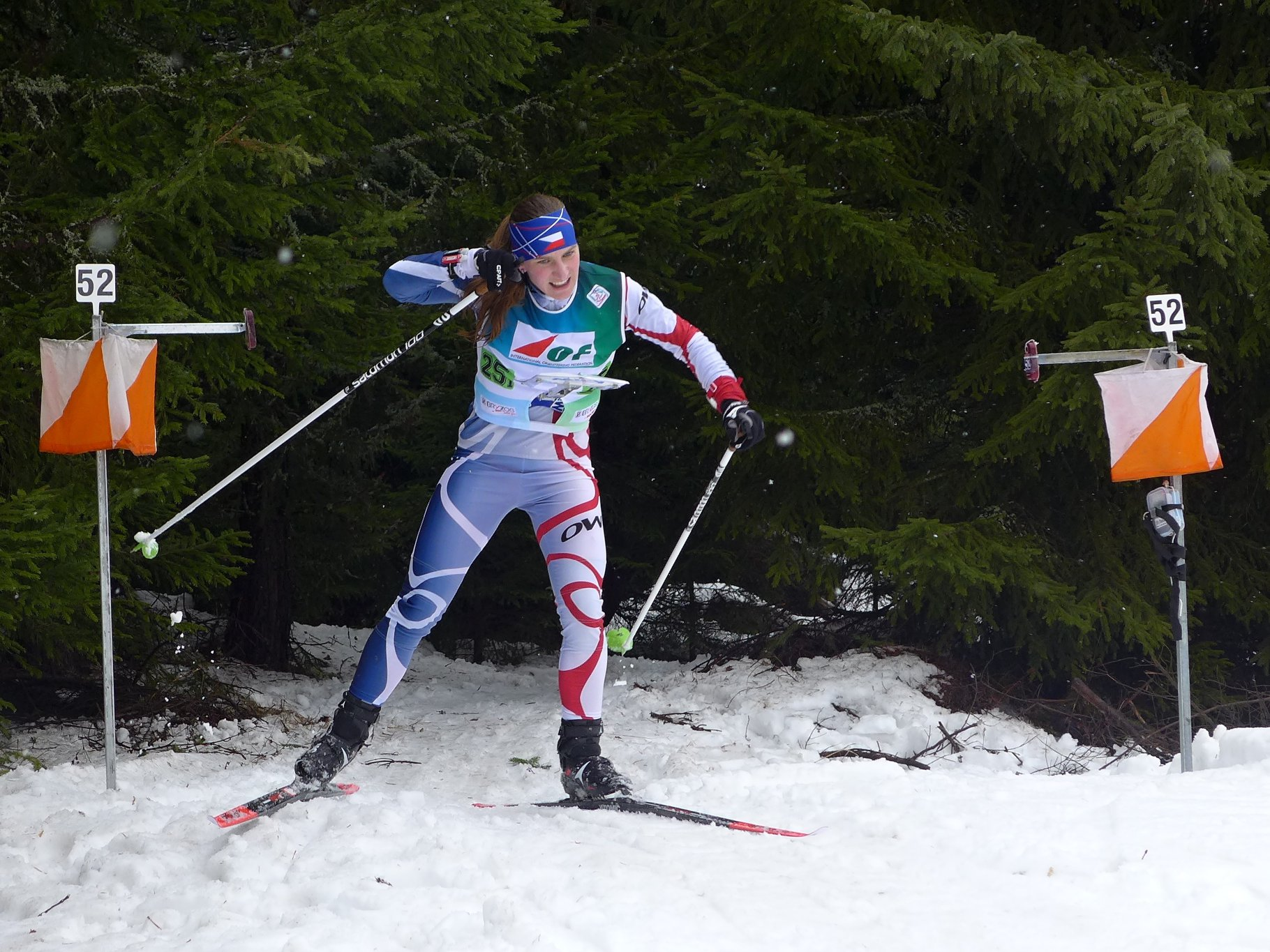 Lenka Mechlová (ESOC in Bulgaria)